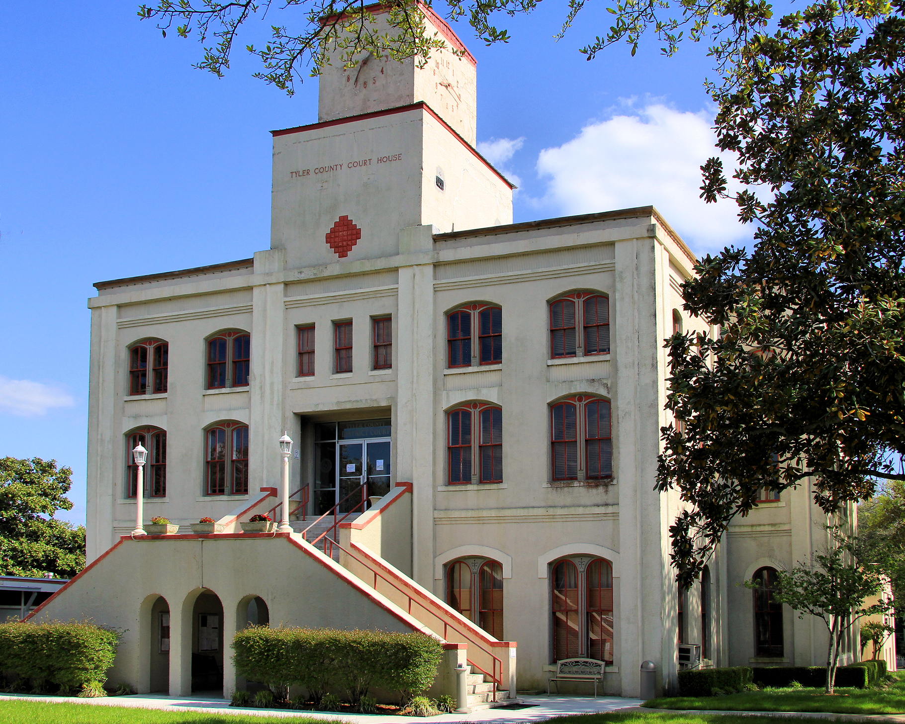 The Tyler County Courthouse in Woodville, Texas, United States. The courthouse was designated a Recorded Texas Historic Landmark in 2000